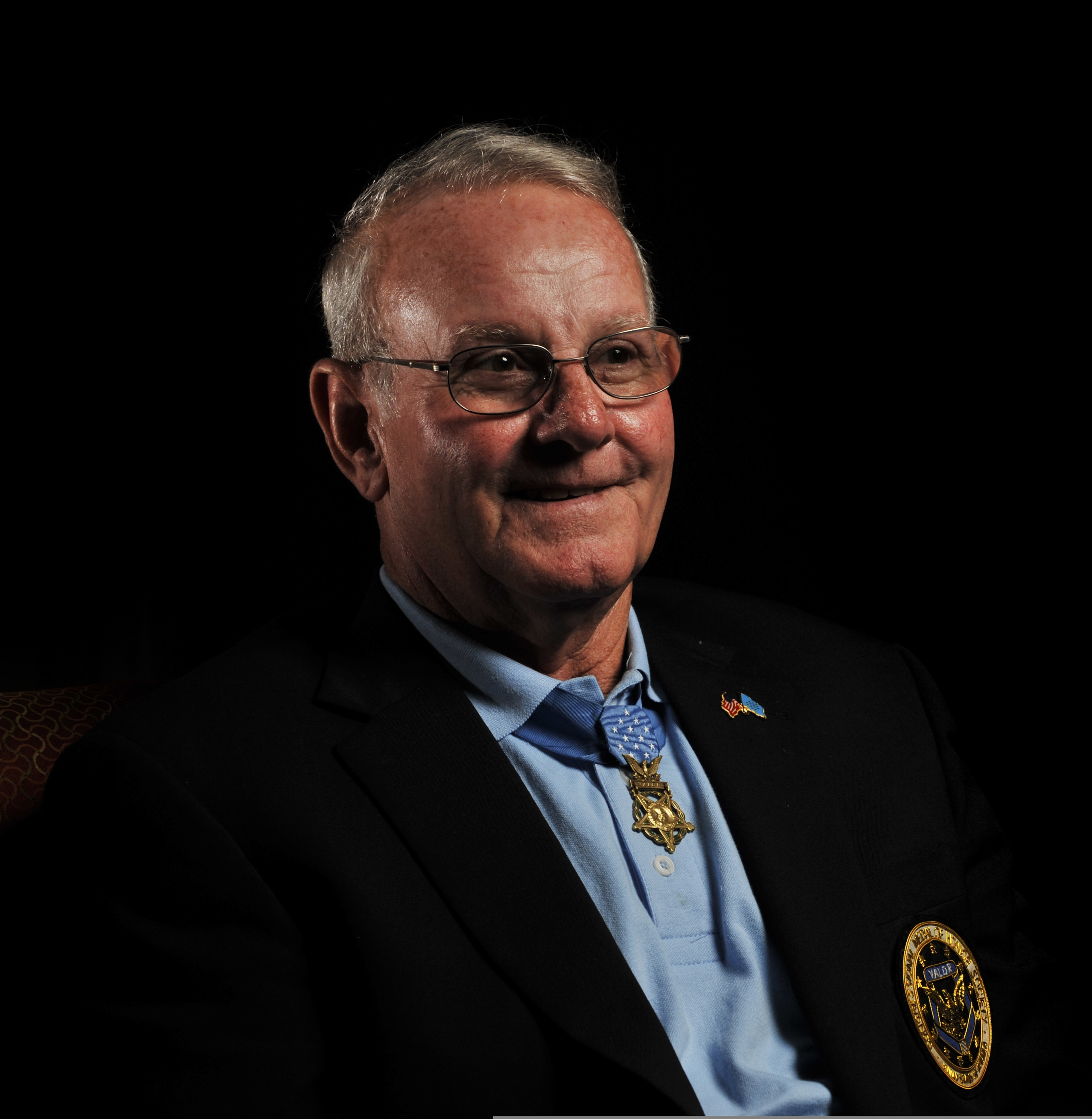 Medal of Honor recipient retired U.S. Army Command Sergeant Major Robert Patterson poses for a photo at Fort Jackson, South Carolina, February 16, 2012, during Medal of Honor week. The 193rd Infantry Brigade hosted Medal of Honor week at the installation to honor Army history and heroes and to give Medal of Honor recipients an opportunity to meet with Soldiers and observe training activities.